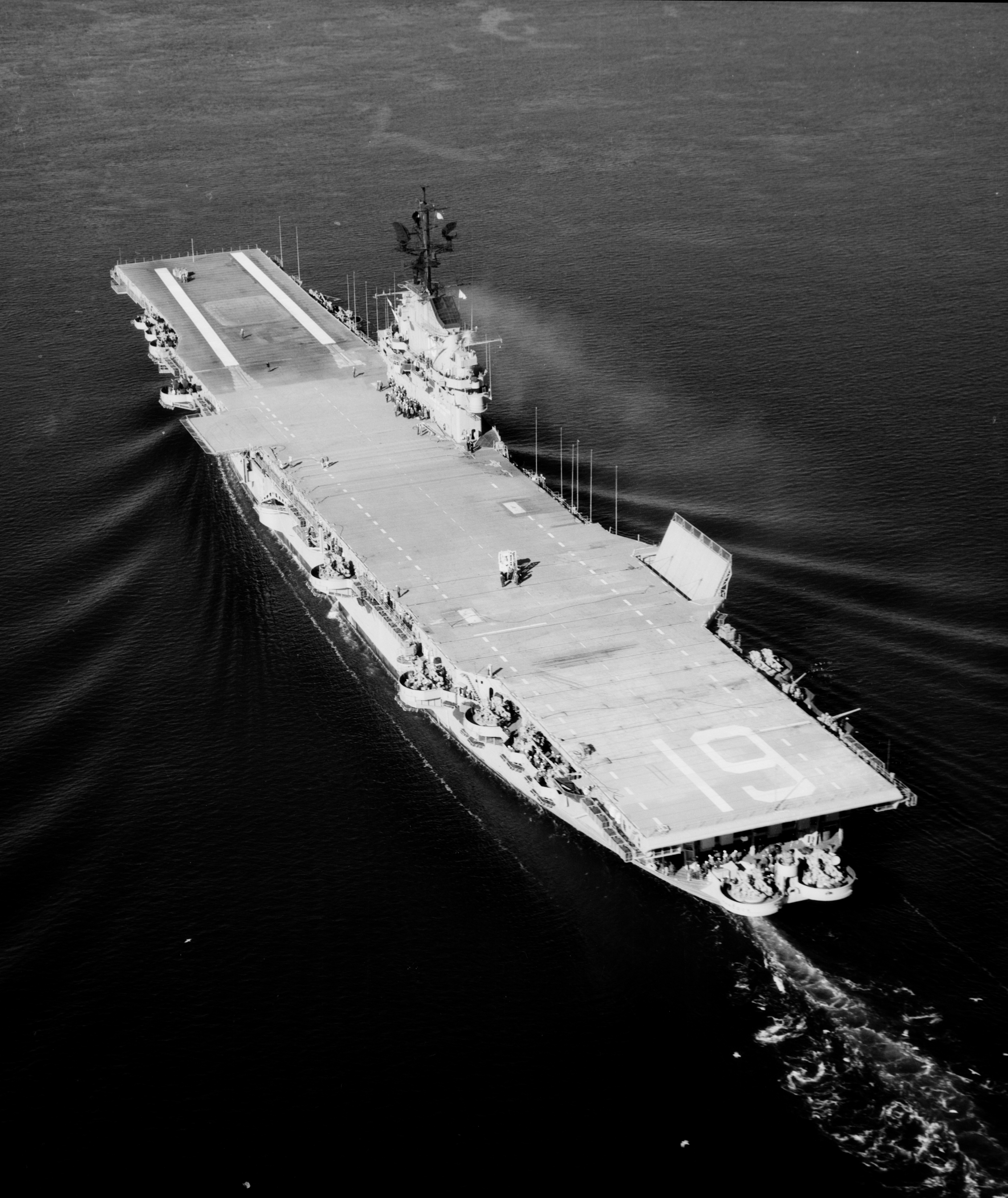 The U.S. Navy aircraft carrier USS Hancock (CVA-19) following her SCB-27C modernisation at the Puget Sound Naval Shipyard, Washington (USA), in March 1954.